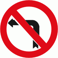 Diagram of road signs of Luxembourg